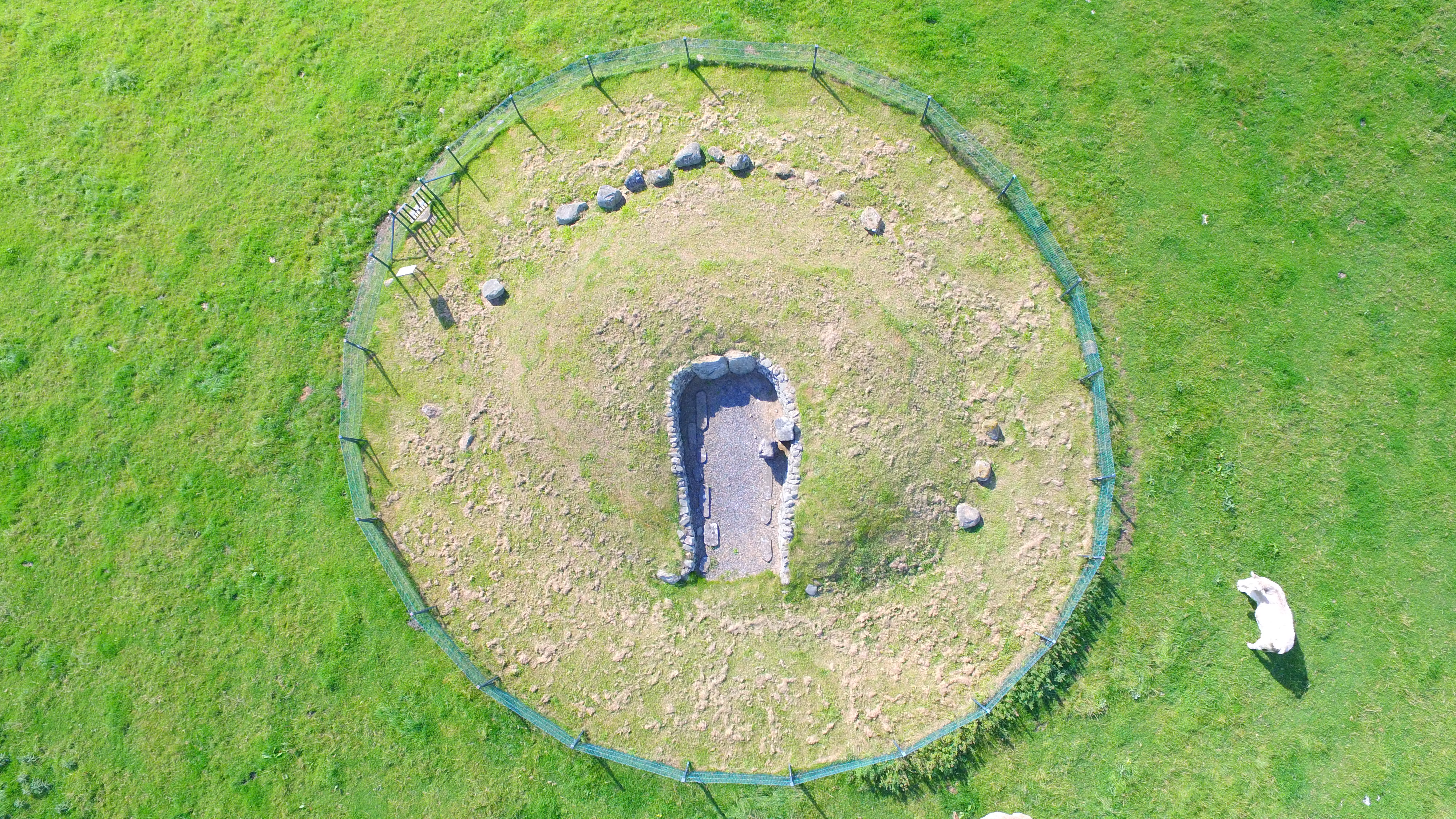 Townleyhall Tomb